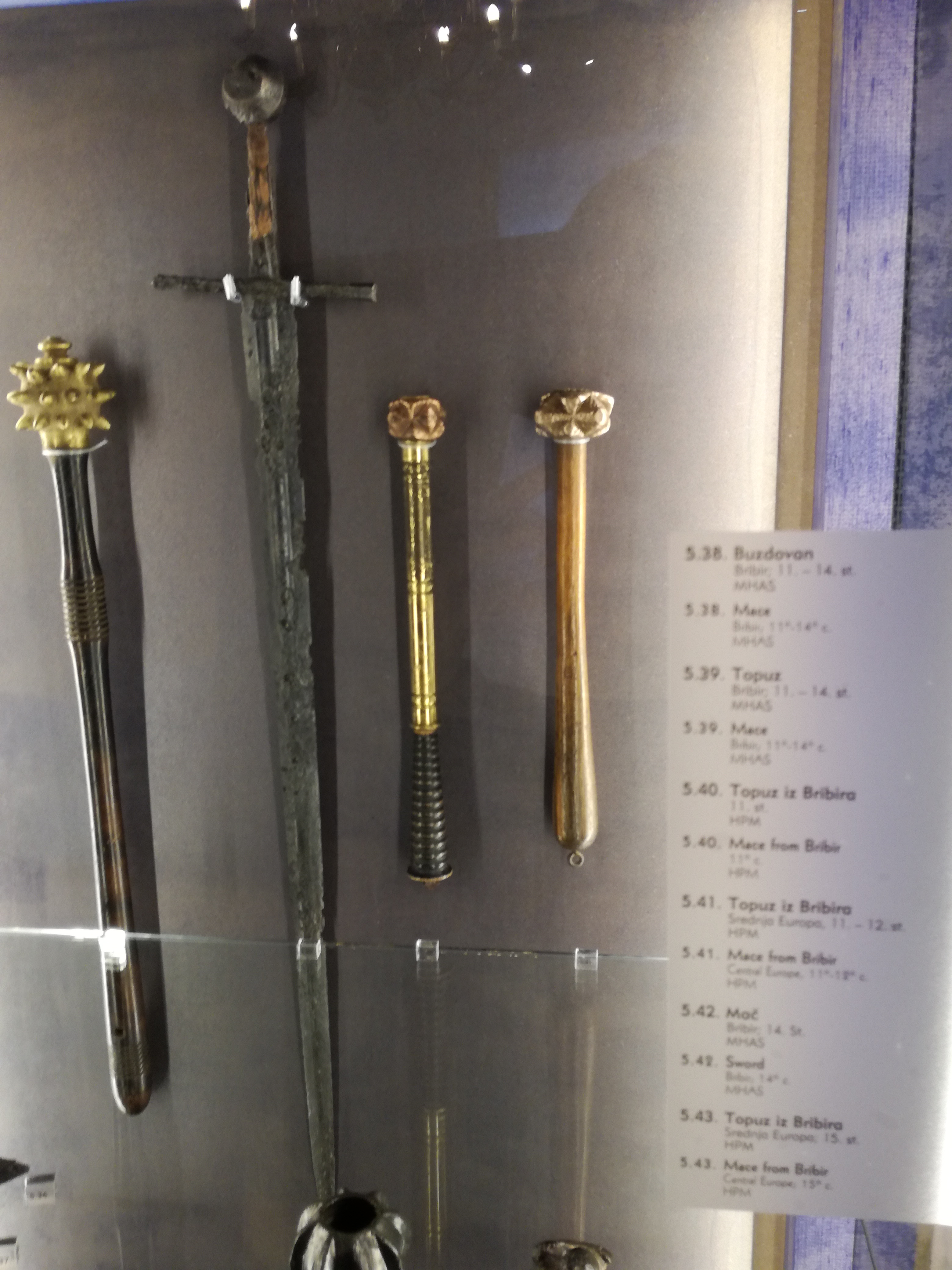 Weapons from the 14th century Bribir at the Croatian History Museum